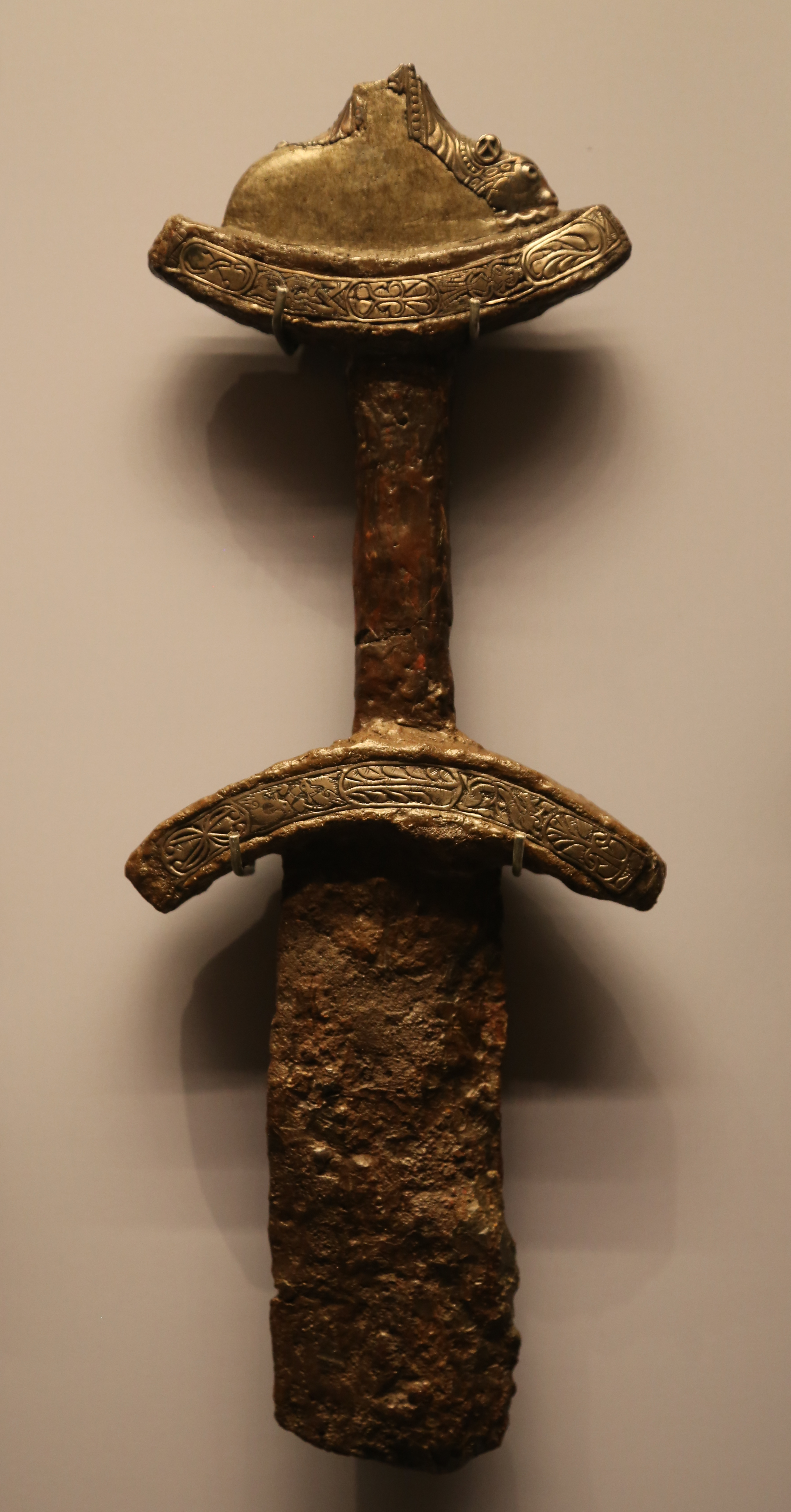 Photo of the remains of the Abingdon Sword